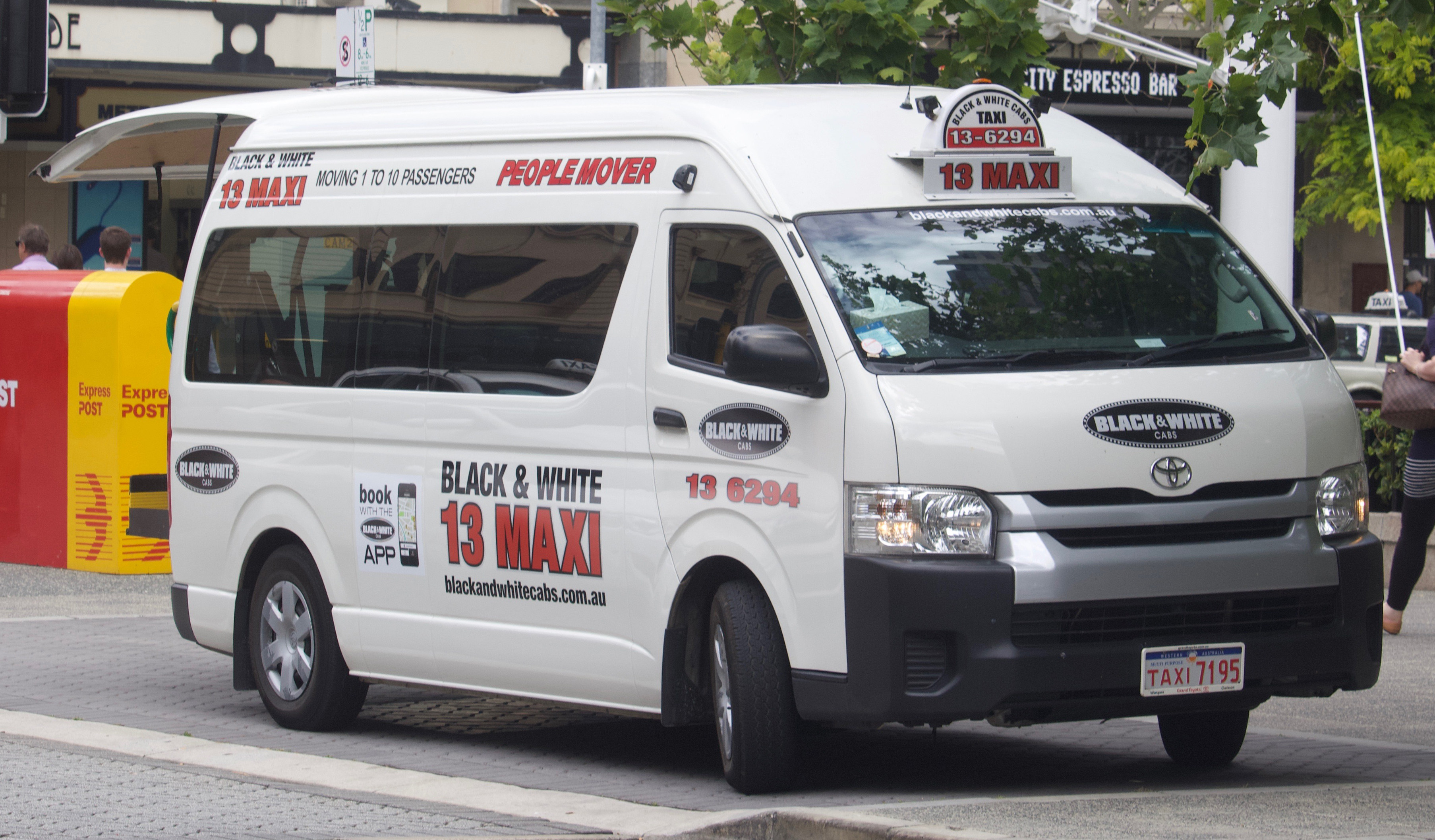 2016 Toyota HiAce (KDH223R) Commuter Super LWB van, Black & White 13 MAXI. Photographed in Perth, Western Australia, Australia.